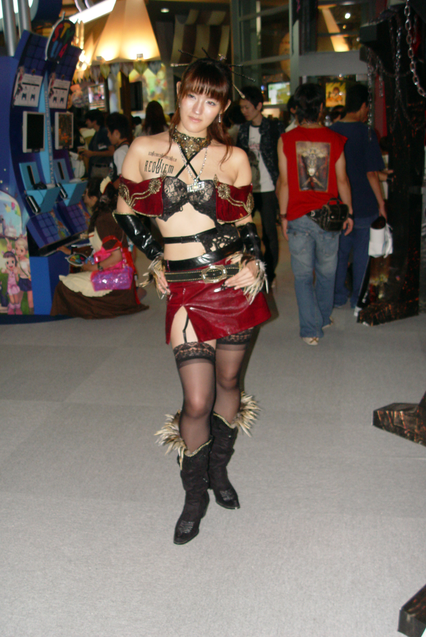 Cosplayed female promotional model of Requiem: Memento Mori at Gravity booth, Tokyo Game Show 2005.